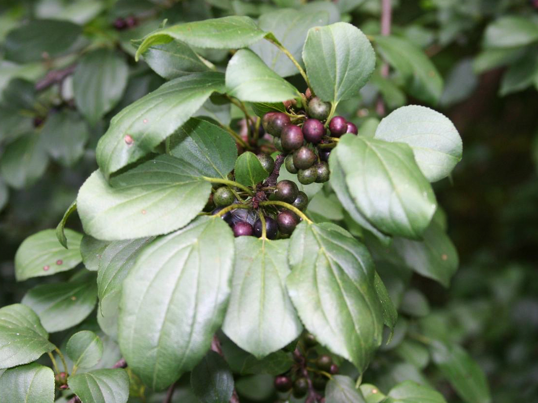 European buckthorn - Rhamnus cathartica L.